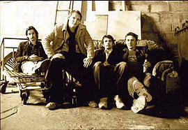 An image of Scottish band The Fus